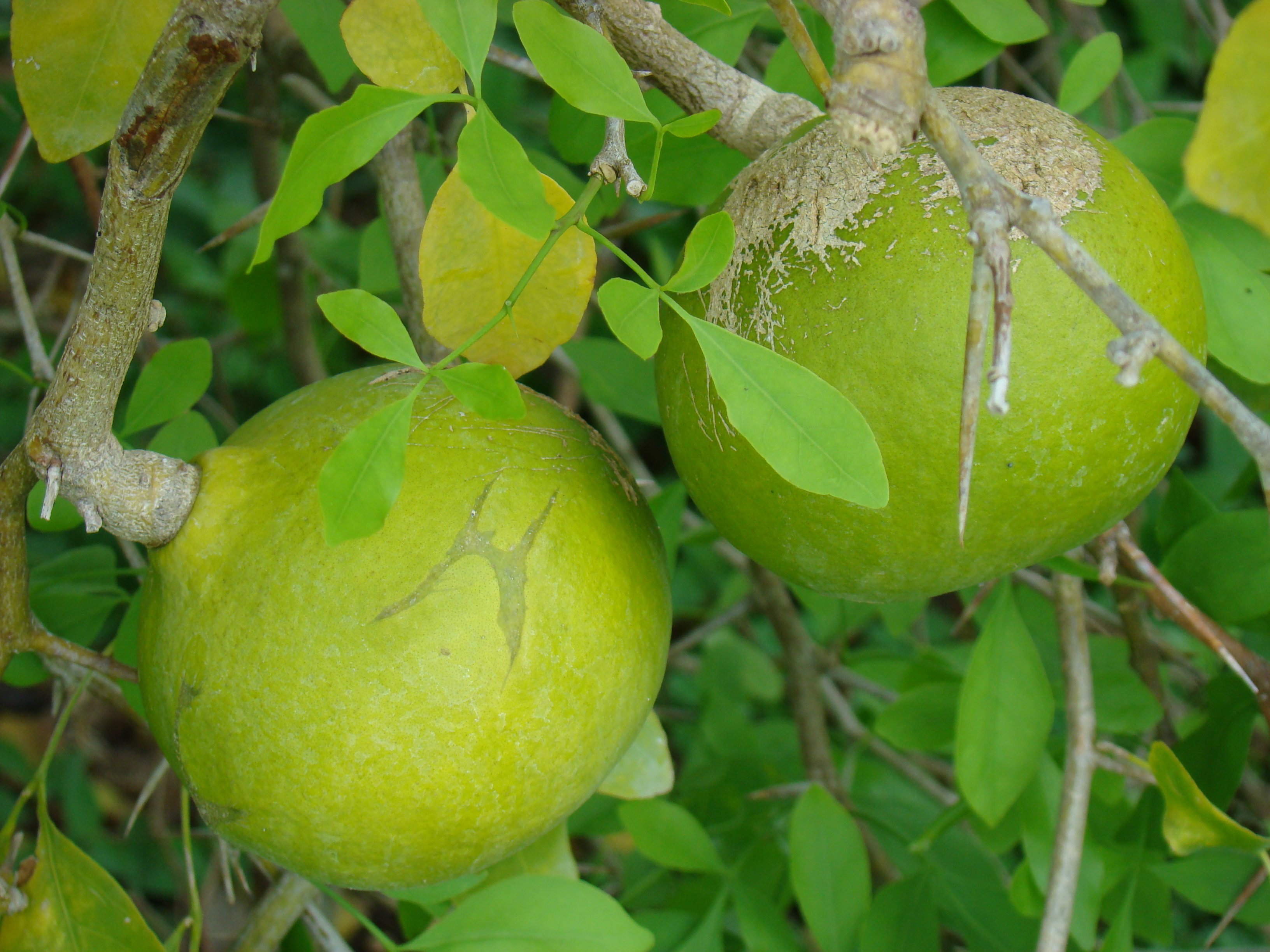 Close-up of a few mature but unripe fruits hanging from a Bael (Aegle marmelos / Rutaceae) tree in the Fruit And Spice Park, Homestead, Florida. Note the Tri-foliate leaf arrangement so typical of Bael.